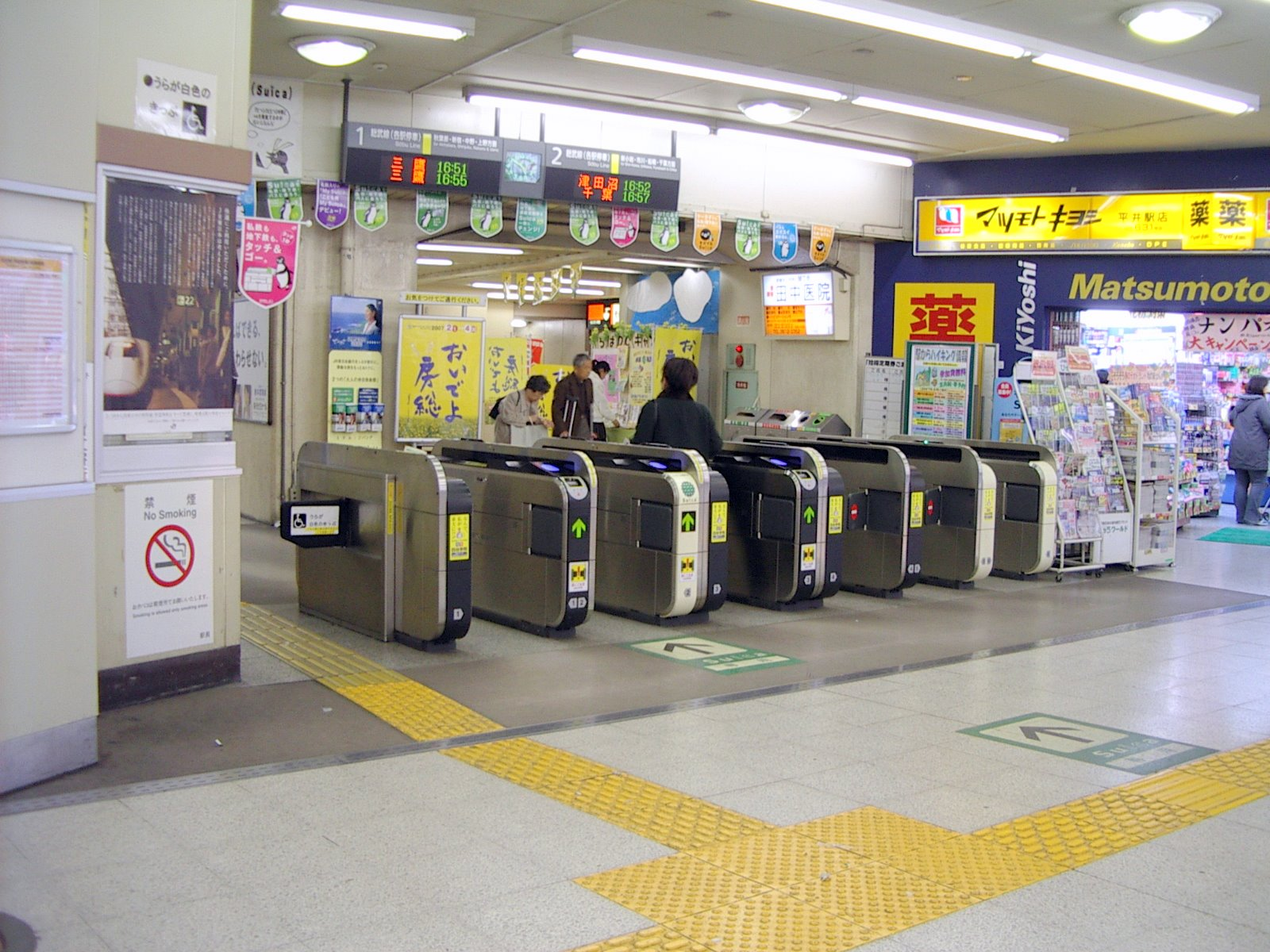 Entrance Gate of JR East Hirai Station